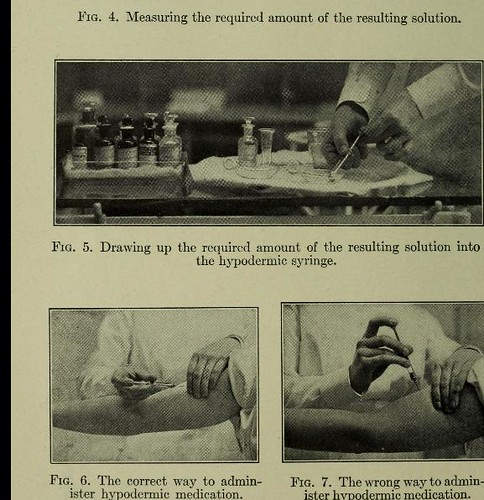 Hypodermic injection instructions found in the book Materia Medical for Nurses by Lavinia Dock.